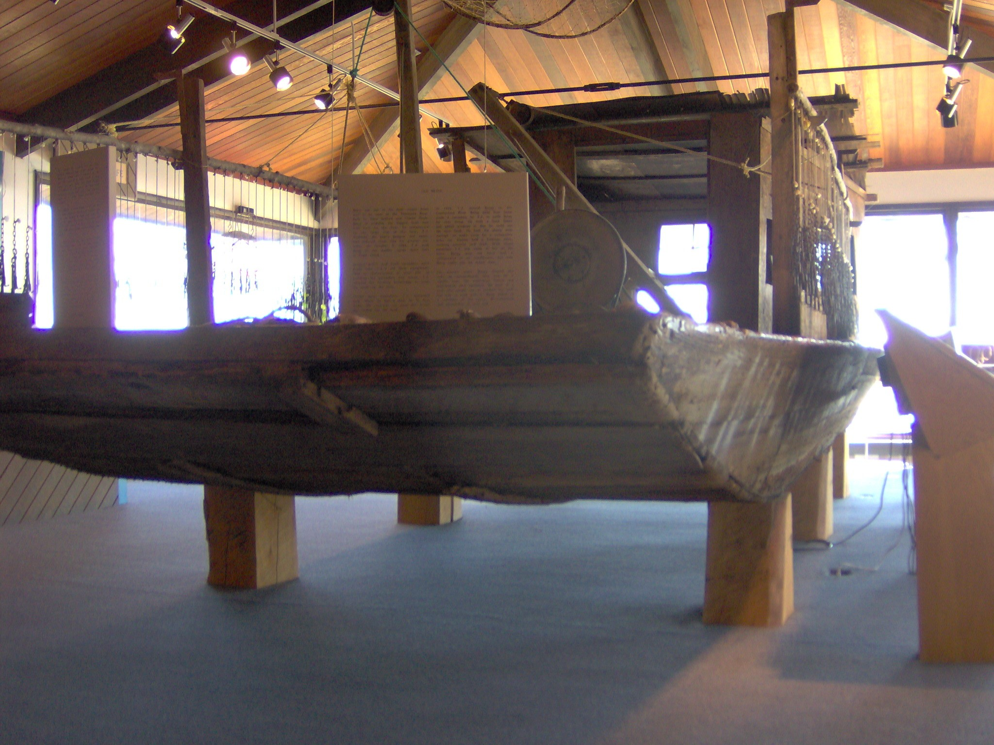 A jon boat on display at the Tennessee River Folklife Center at Nathan Bedford Forrest State Park, located in Benton County, Tennessee, in the southeastern United States. Jon boats were commonly used in musseling.